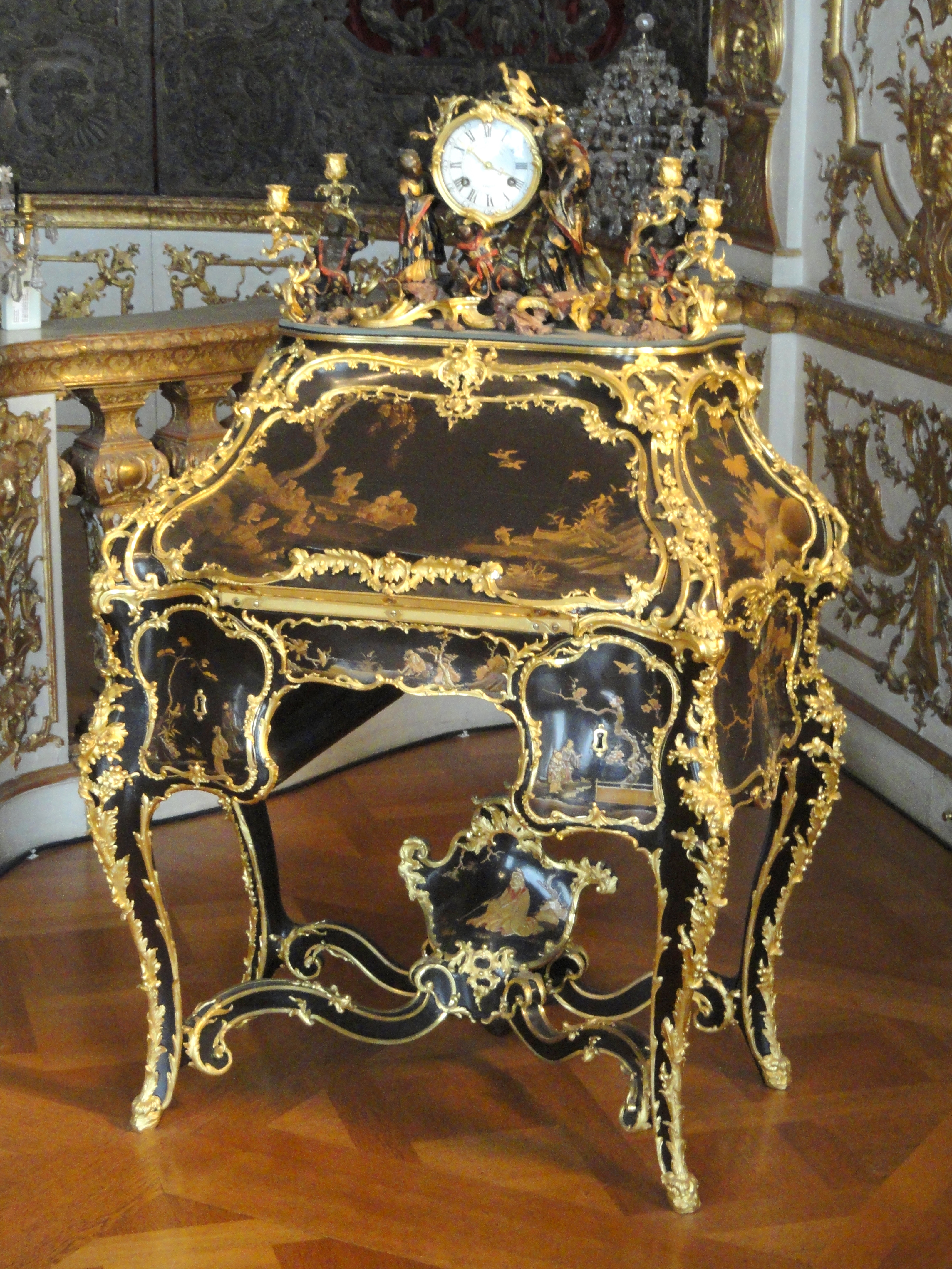 Secretaire by Bernard II van Risamburgh, c. 1737. Furniture exhibited in the Münchner Residenz, Munich, Germany.